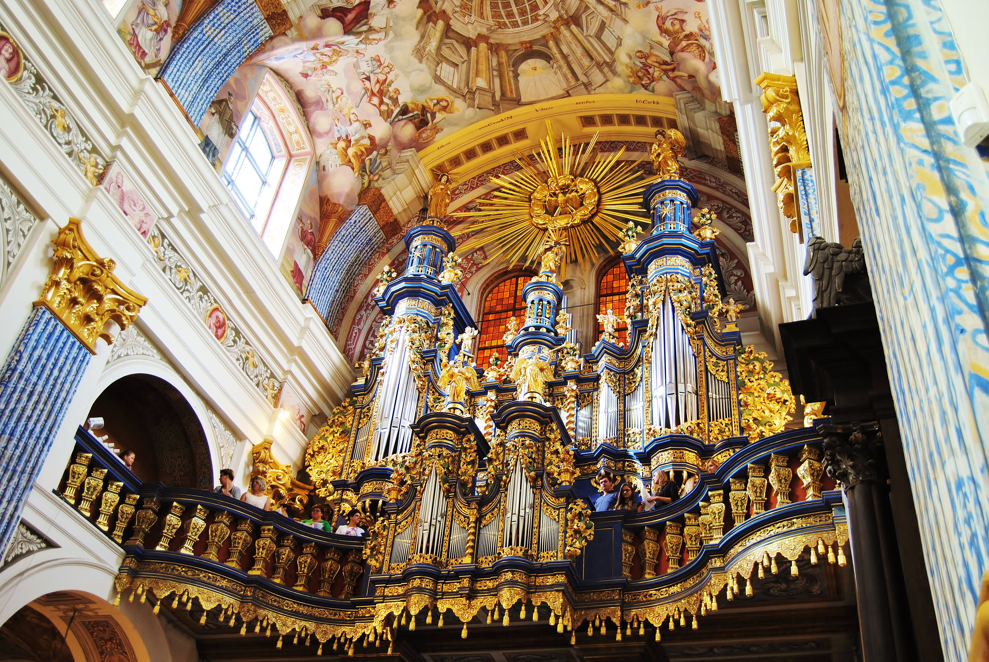 Pipe organ of St. Mary Church in Święta Lipka, Poland Wikidata has entry Święta Lipka with data related to this item.